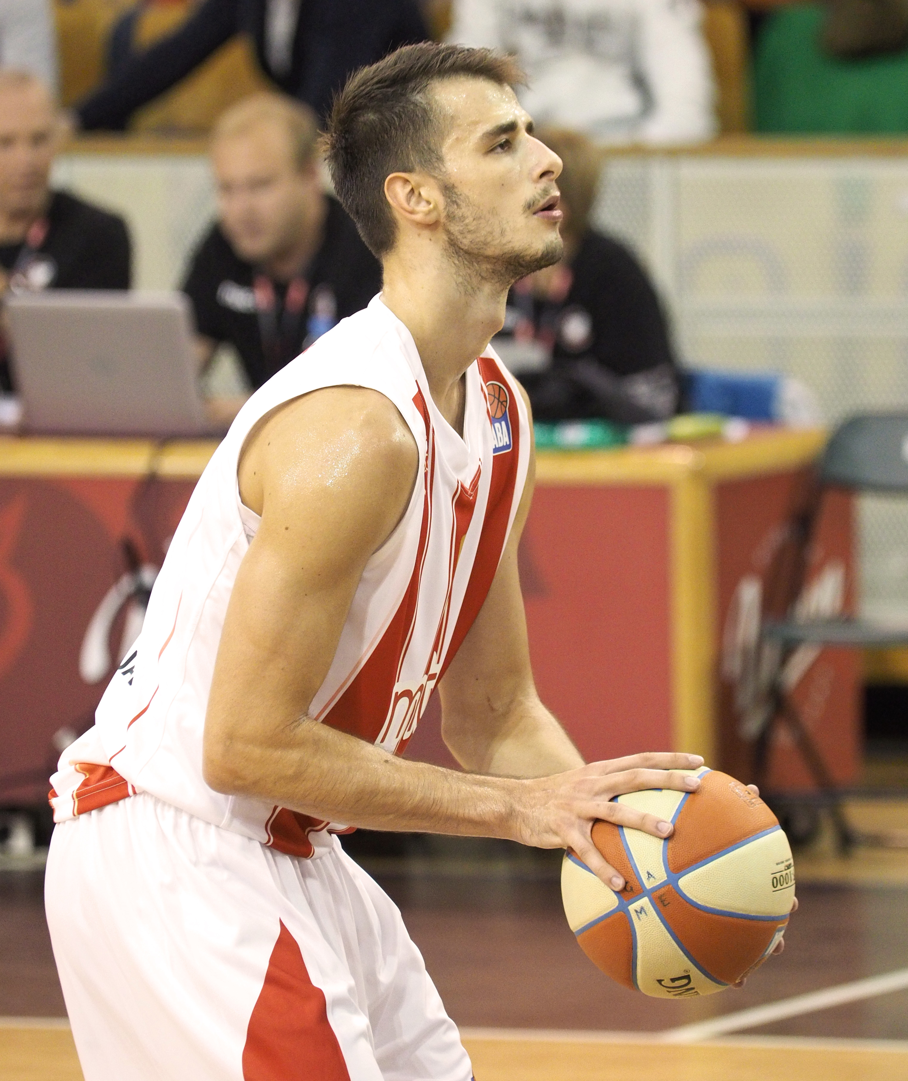 Nemanja Dangubić, basketball team KK Crvena zvezda, 2017. This photograph was taken with a Olympus E-M1.